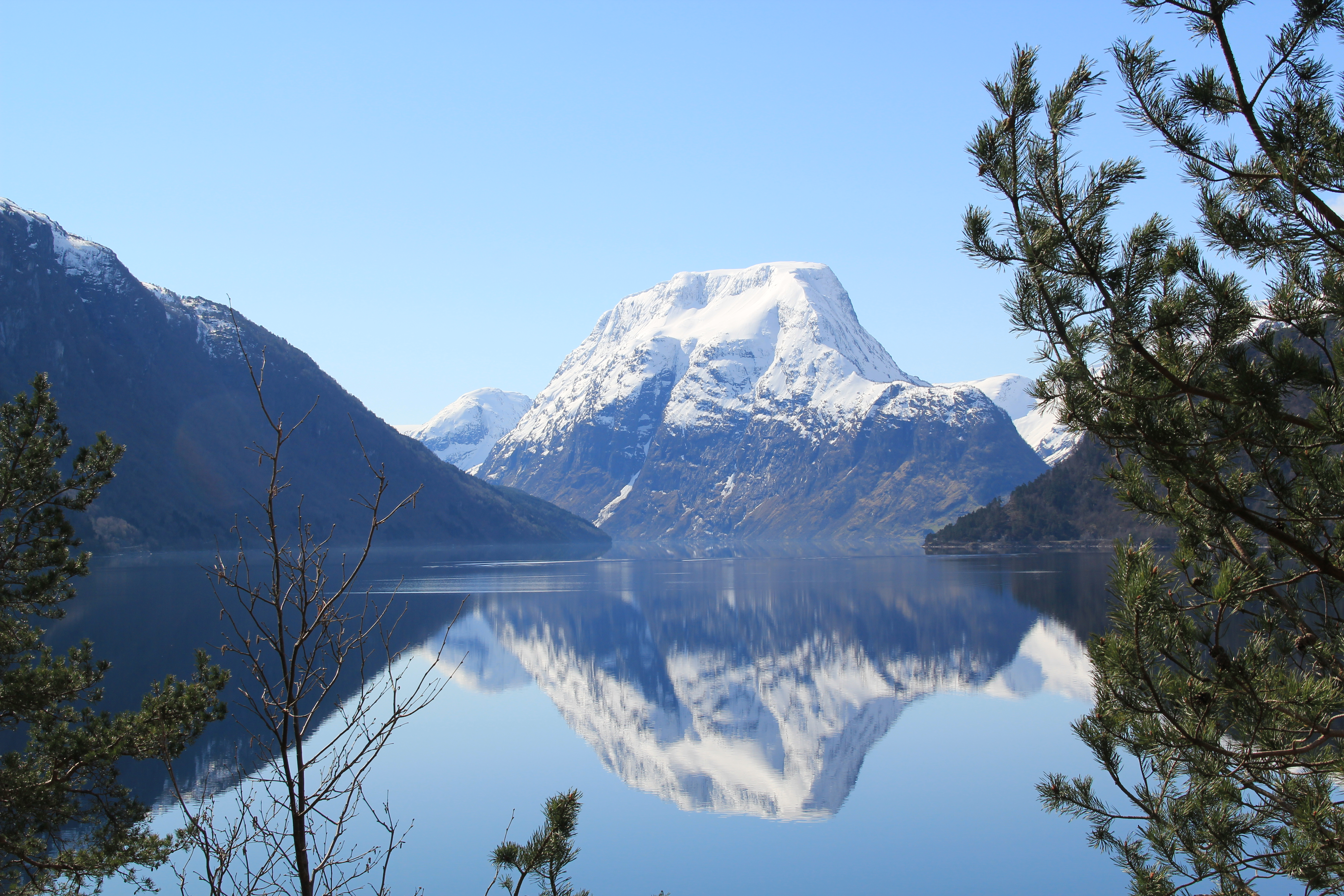 Breimsvatnet with mountain Skjorta